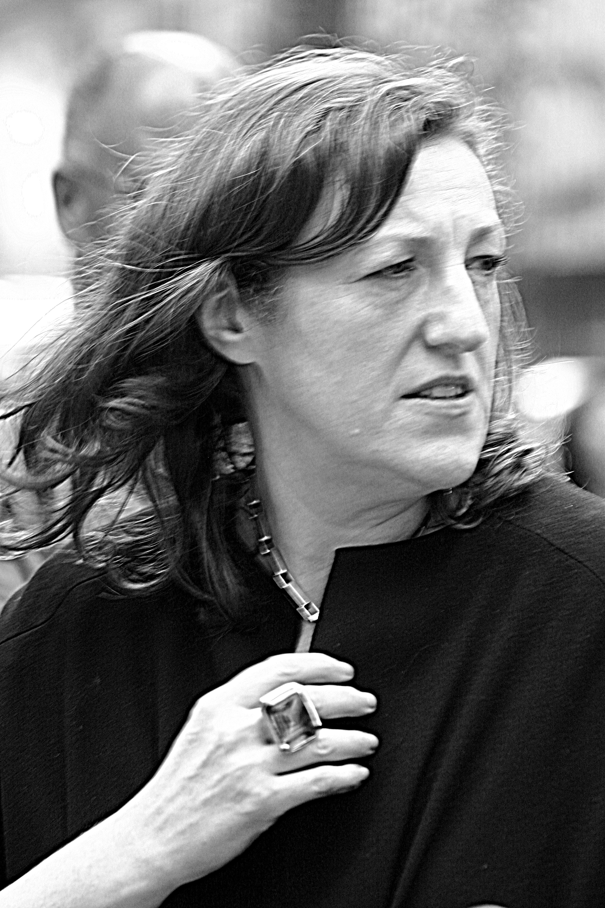 Harper's Bazaar editor Glenda Bailey enters the Bryant Park tents during Mercedes-Benz Fashion Week Spring 2008.